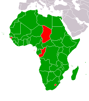 Member countries the African Union, tha have not recognised South Sudan